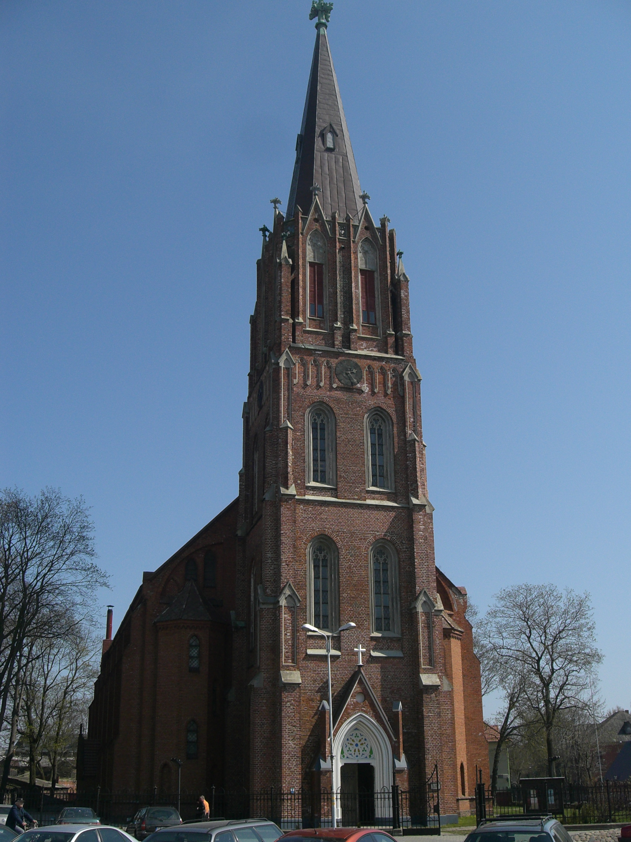 Liepāja town, Latvia. Church